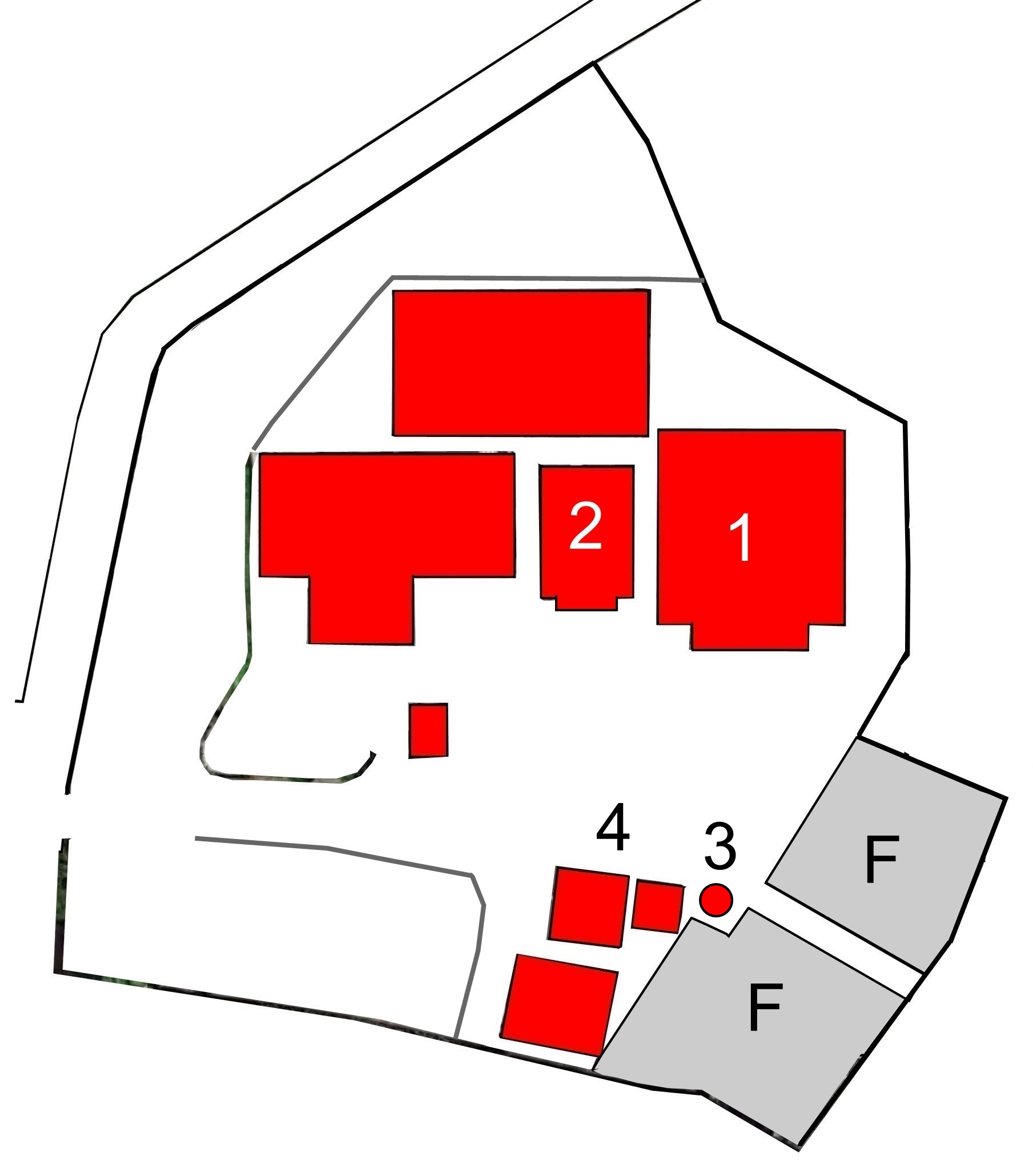 Layout of Zenraku-ji temple, Kôchi, Japan